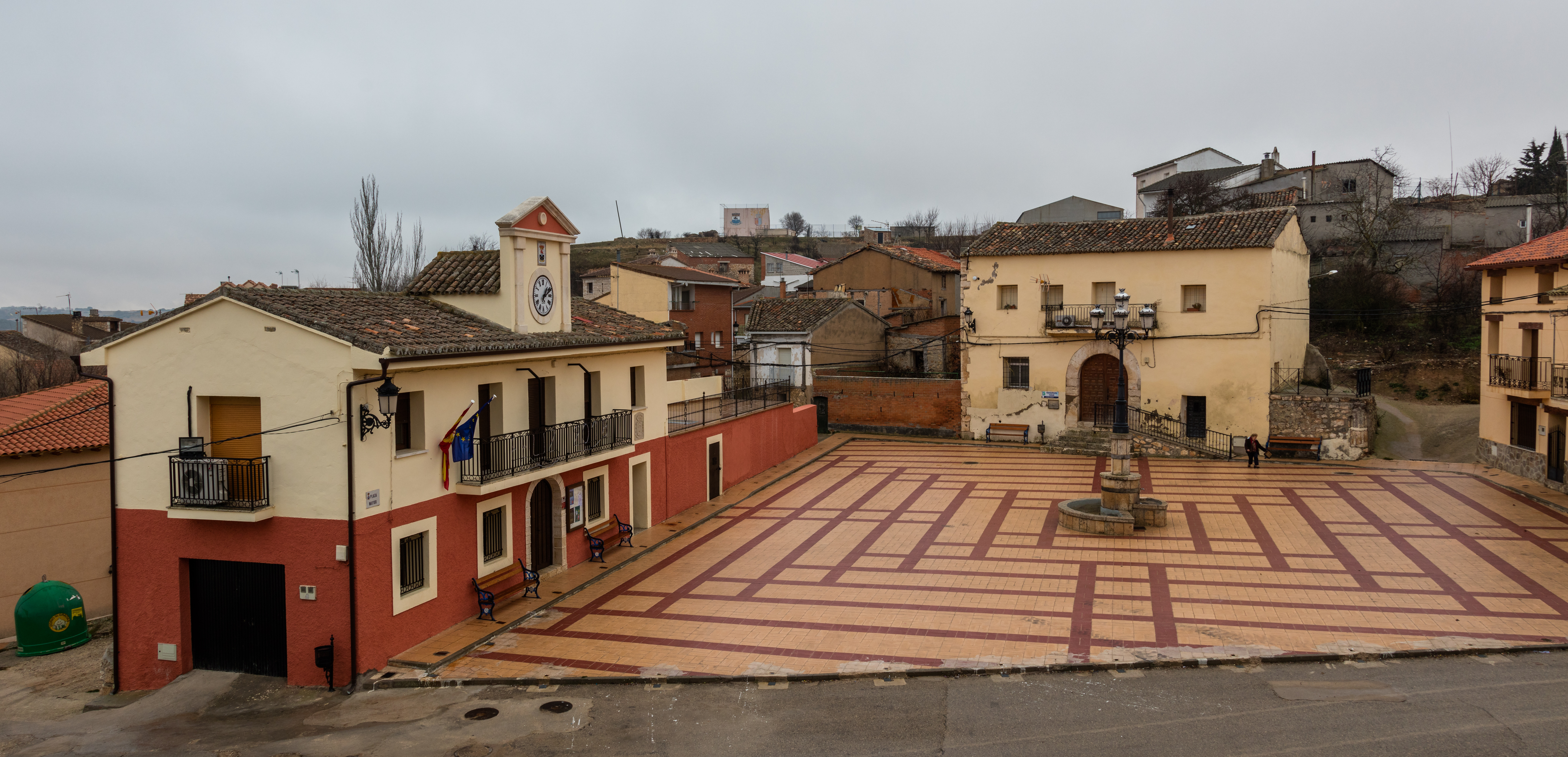 Plaza Mayor, Atanzón, Guadalajara, Spain